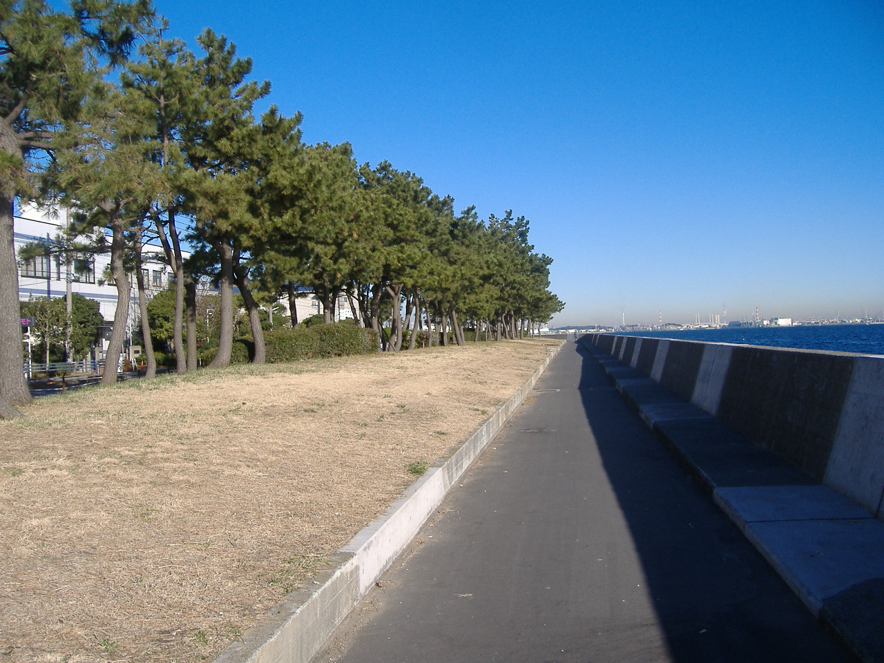 Fukuura Seaside Promenade (Yokohama, Japan)